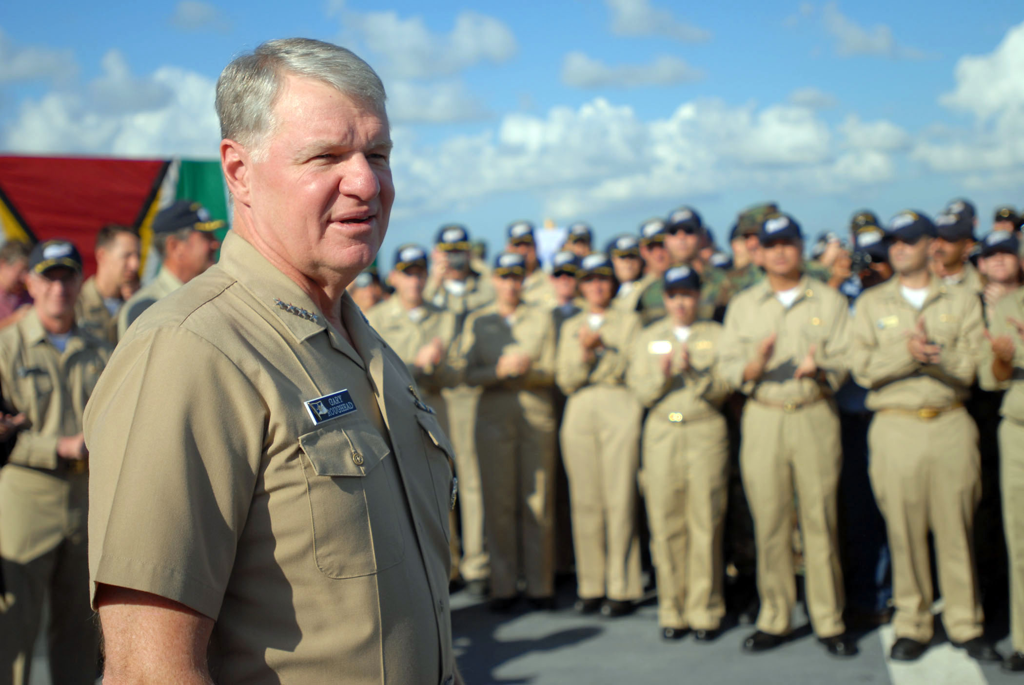 ATLANTIC (Oct. 12, 2007) - Chief of Naval Operations (CNO) Adm. Gary Roughead speaks with crew members aboard the hospital ship USNS Comfort (T-AH 20) upon completion of their deployment Oct. 12. Comfort completed its four-month humanitarian deployment to Latin America and the Caribbean providing medical care to patients in a dozen countries. U.S. Navy photo by Mass Communication Specialist 3rd Class Kelly E. Barnes (RELEASED)